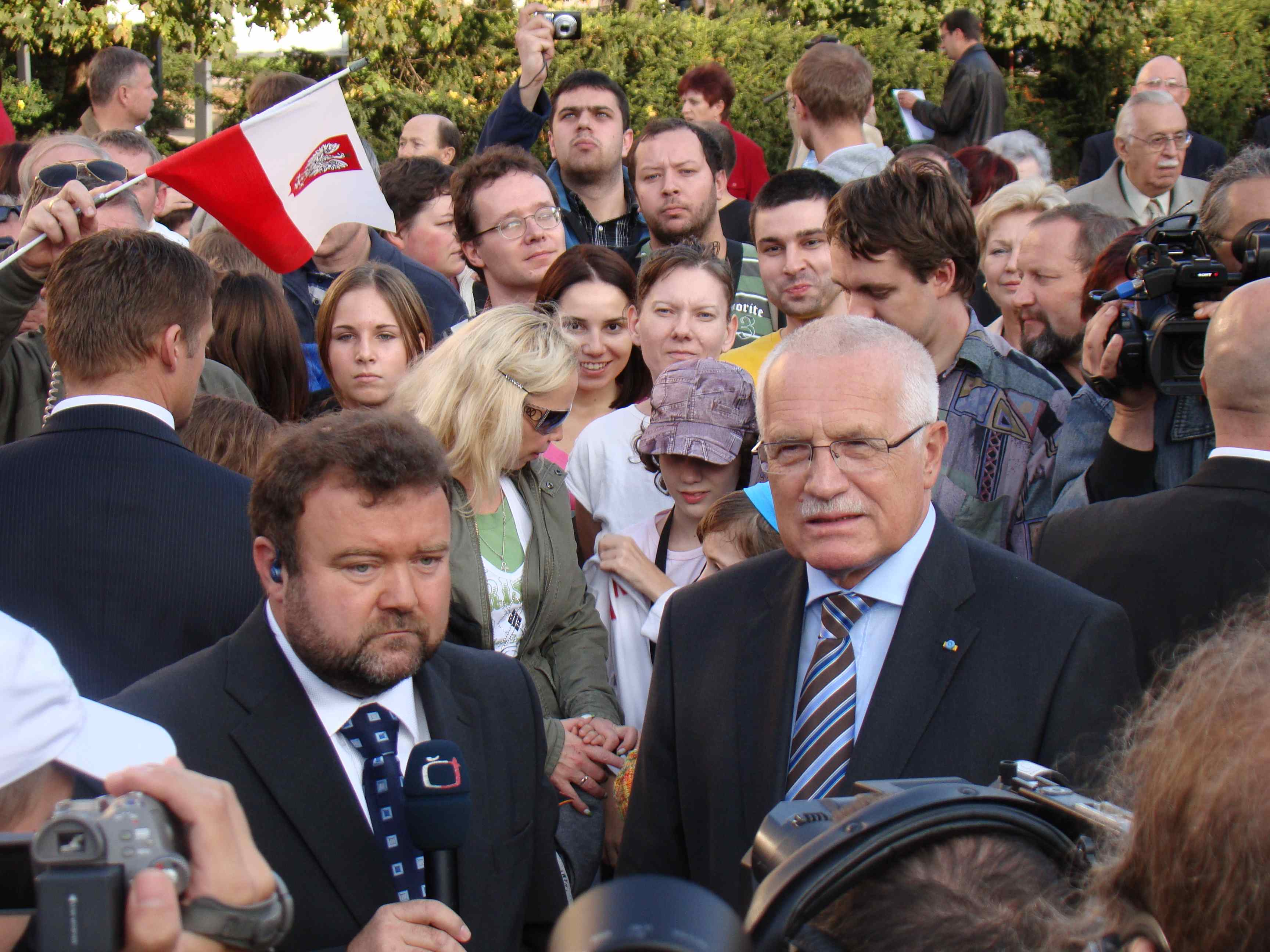 President of Czech Rep. Vaclav Klaus. 2008. In the left foreground we can see Miroslav Karas, reporter for Czech Television in Poland